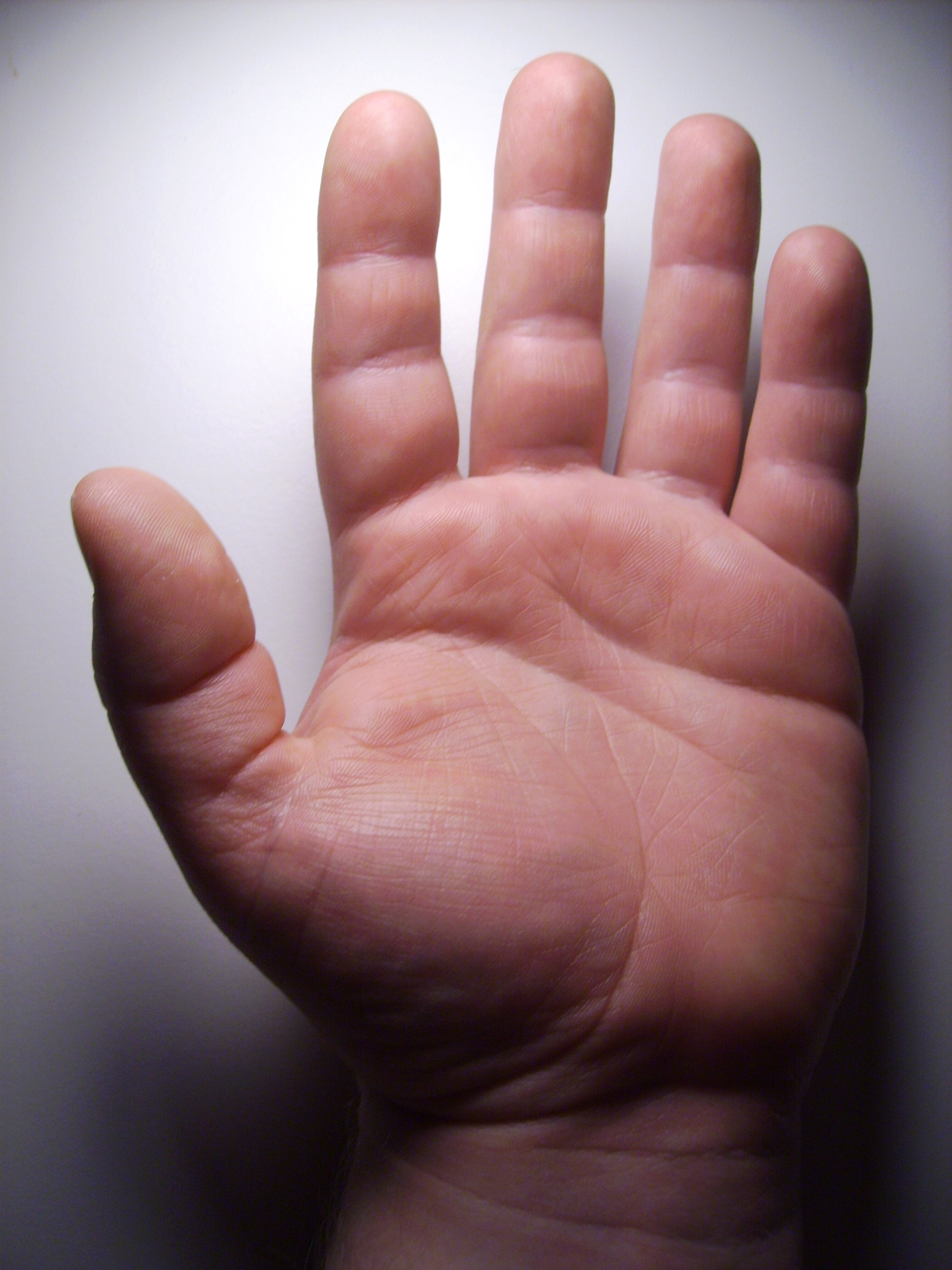 An adult hand showing normal creases